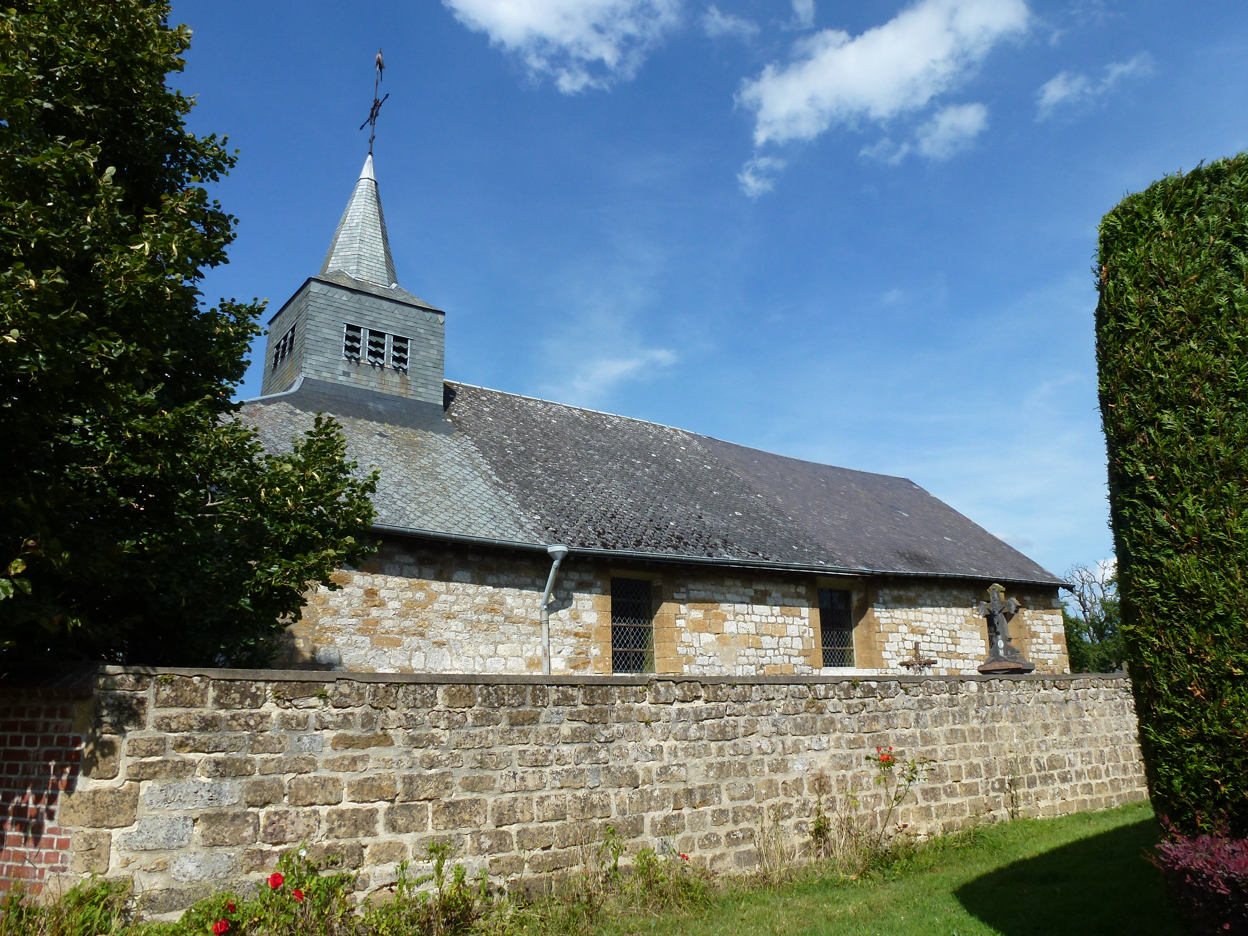 Villers-sur-le-Mont (Ardennes) église, vue latérale